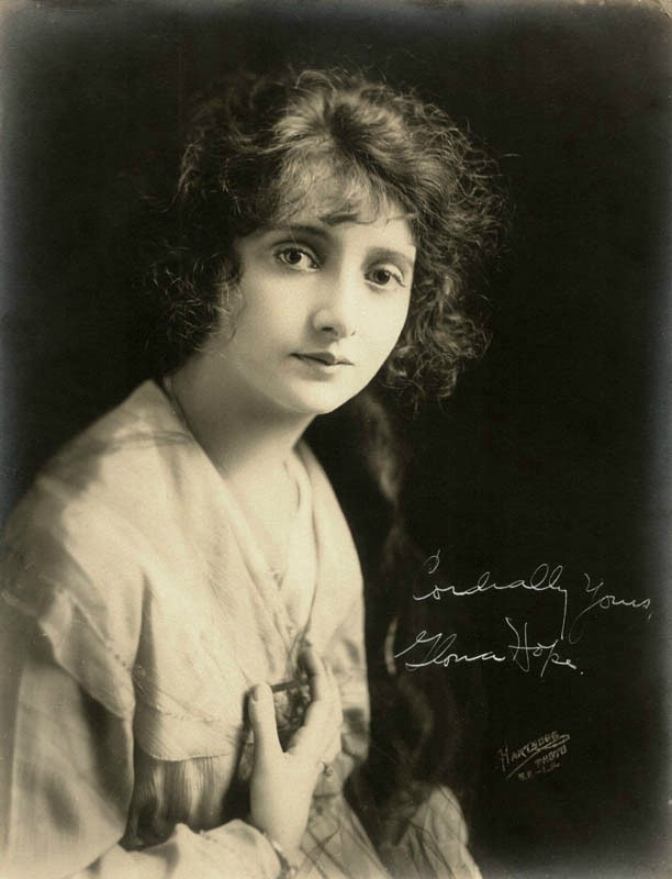 Portrait of American actress Gloria Hope (1901–1976) by Fred Hartsook.